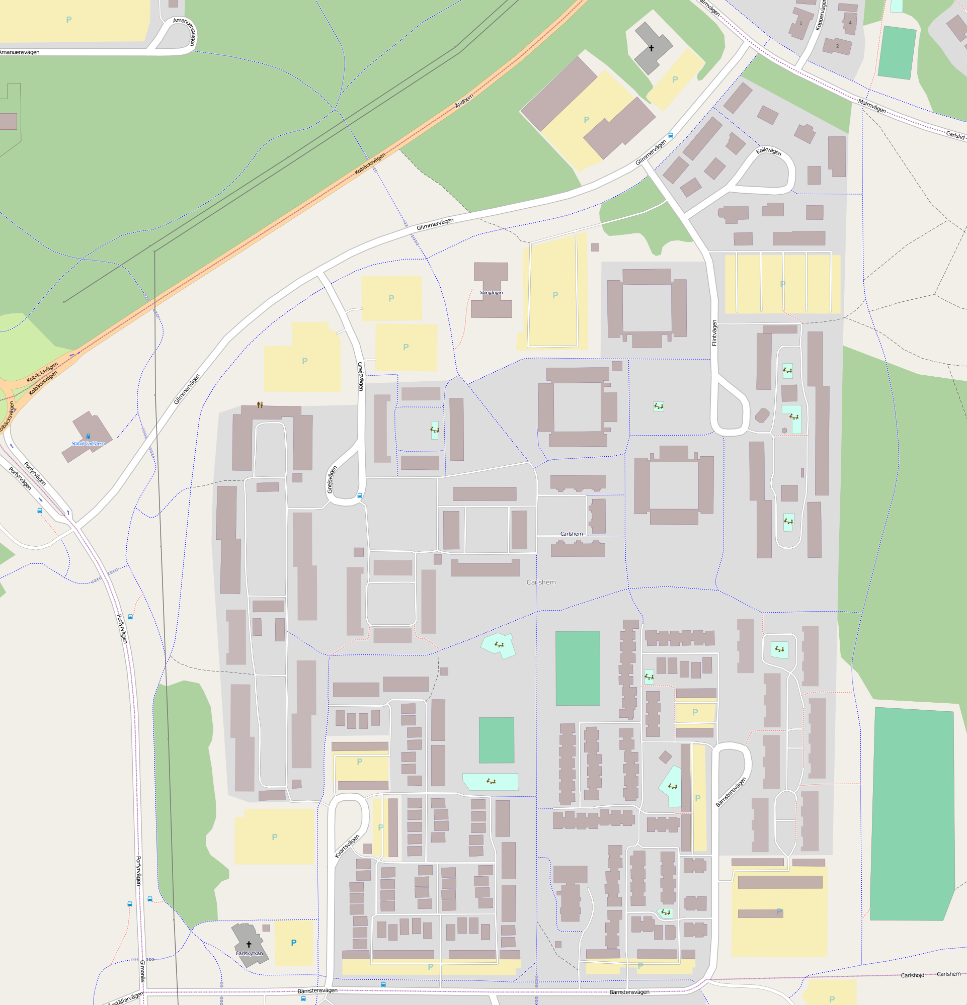 This map of Carlshem was created from OpenStreetMap project data, collected by the community. This map may be incomplete, and may contain errors. Don't rely solely on it for navigation.